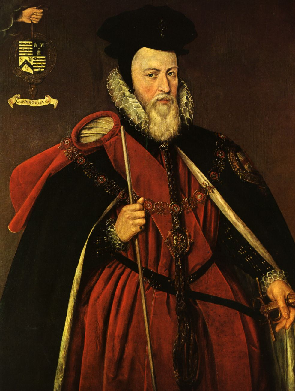 in the robes of the Order of the Garter. Arms quarterly of four: 1&4: Cecil 2: A roundel between three towers triple towered (Caerlion) 3: Argent, a chevron between three chess rooks ermine (Walcot, an heiress of Heckington, as can be seen quartered by Heckington on the monument to Richard Cecil (husband of Jane Heckington) in Stamford Church).